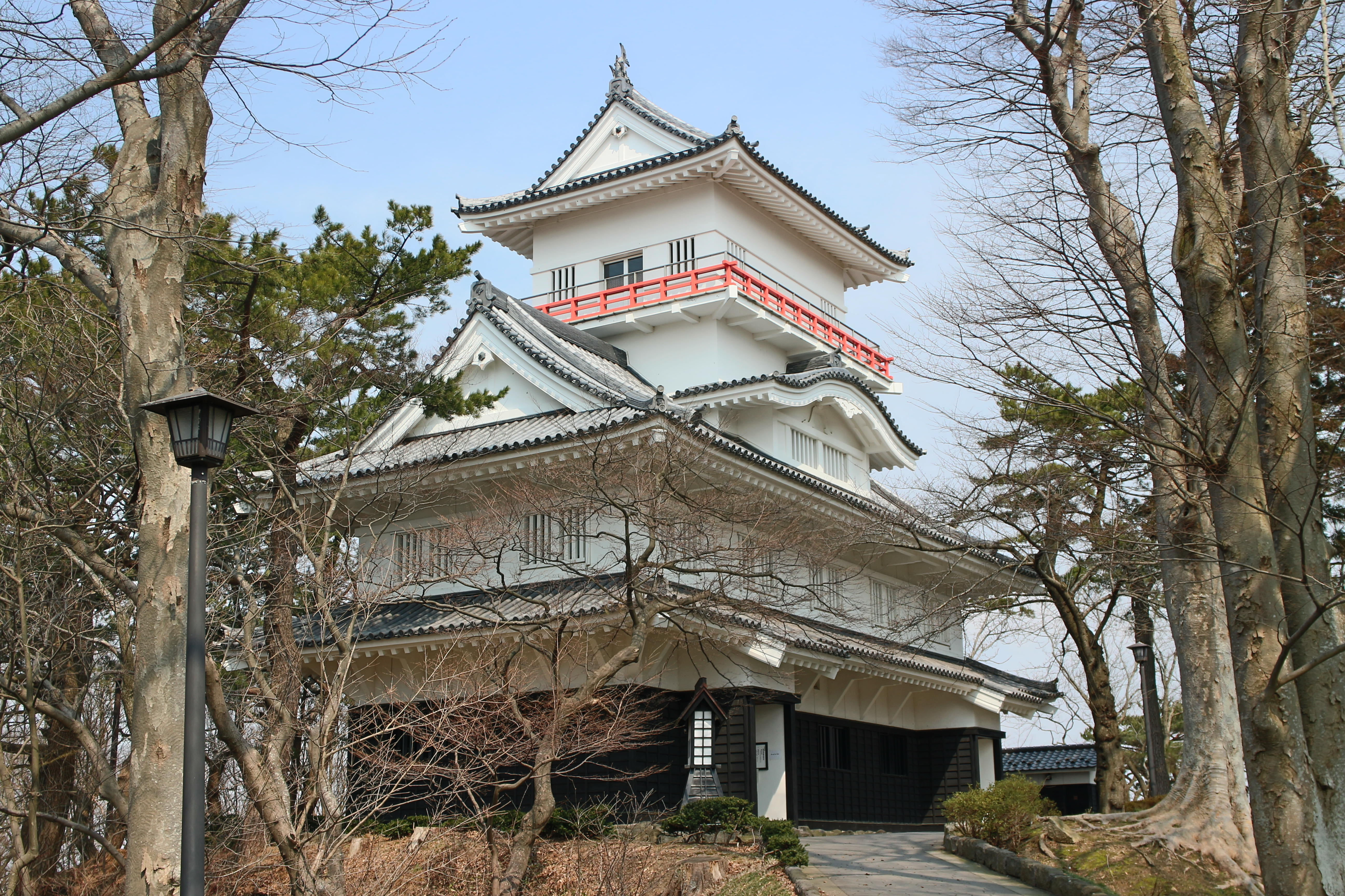 Kubota Castle